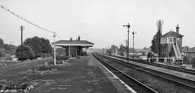 Burnham (Bucks.) Station. View eastward, towards Paddington; ex-Great Western, Paddington - Reading etc. main line. Note that this station has platforms only on the Relief lines.